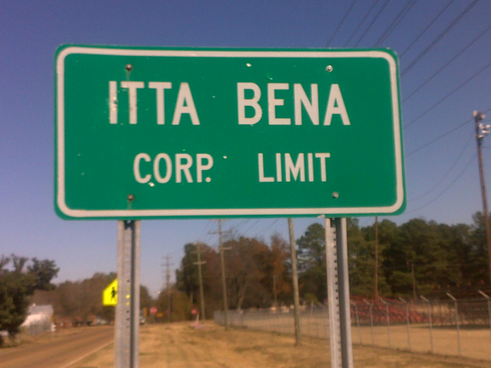 Itta Bena city limit sign